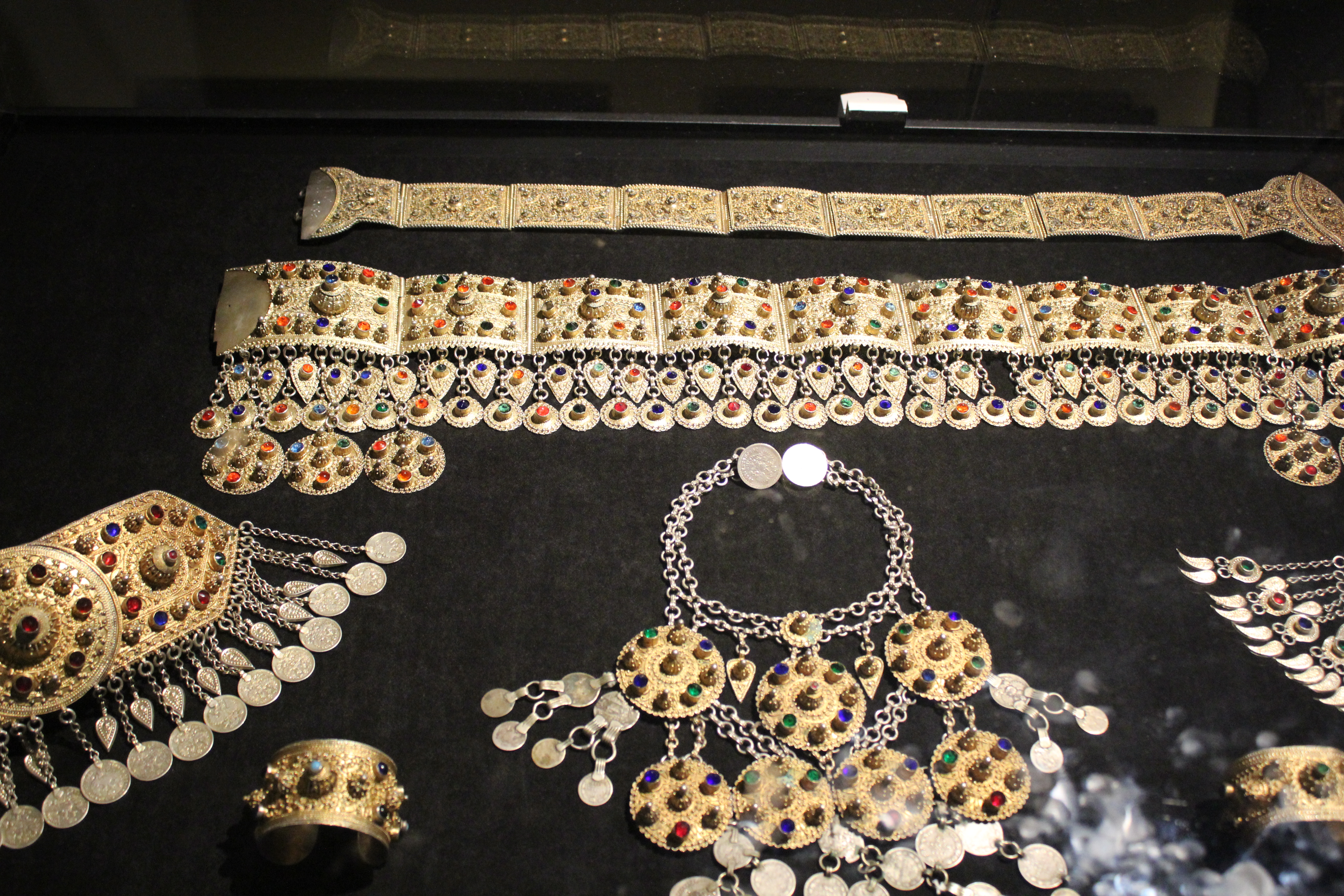 Azerbaijani jewellery from middle ages in Museum of Azerbaijani carpet